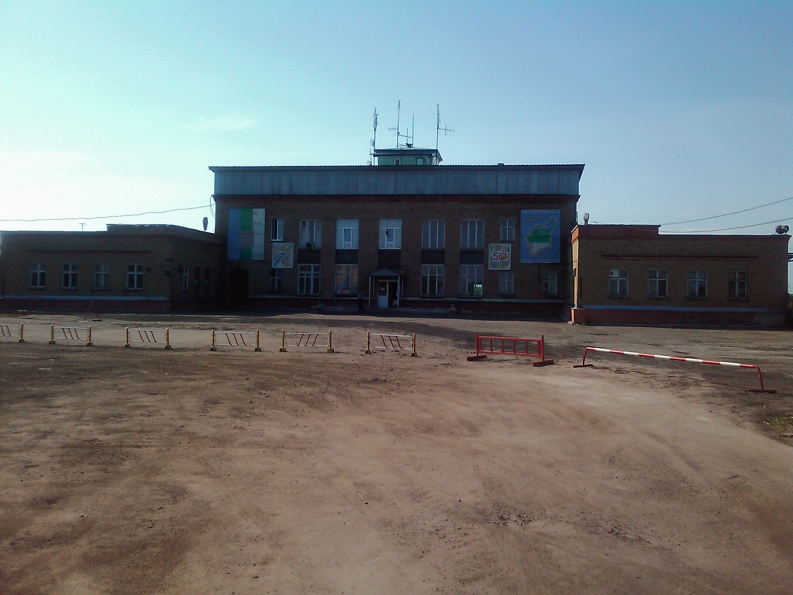 Terminal building in Inta.